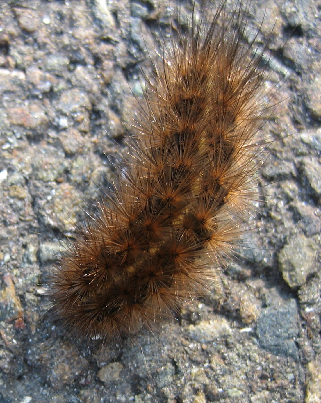 Ruby Tiger